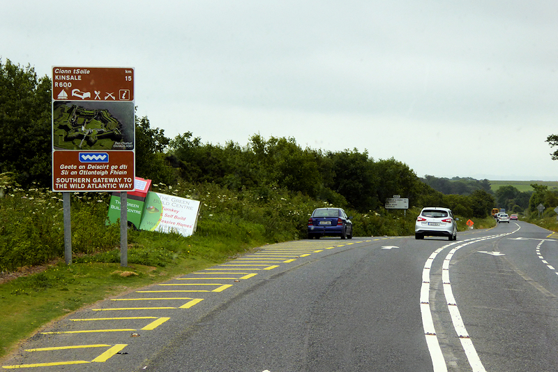 R600 south of Farmers Cross